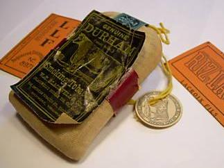 Bag of Durham Tobacco used to roll your own cigarettes.